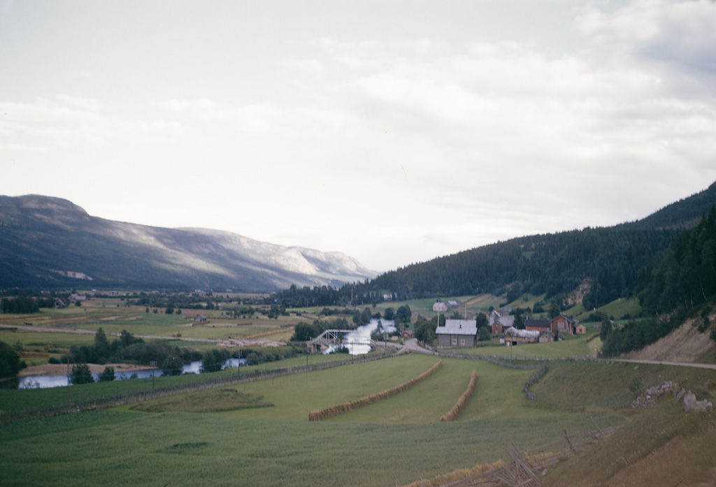 Tyldalen Valley in Norway. Tyldalen i Norge. Location: Tyldalen, Tyldal, Hedmark fylke (county), Norway Photograph by: Fredrik Bruno Date: 1948 Format: Colour slide Persistent URL: Read more about the photo database (in english)